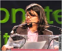 American politician Rashida Tlaib at the “Standing Strong: Women Creating Legacy Communities” session of the Islamic Society of North America’s annual convention in Chicago.